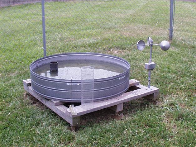 Evaporation pan and accessory instruments. Evaporation stations are used to measure the amount of water that evaporates into the atmosphere over specified periods of time. Also measured are related atmospheric parameters.